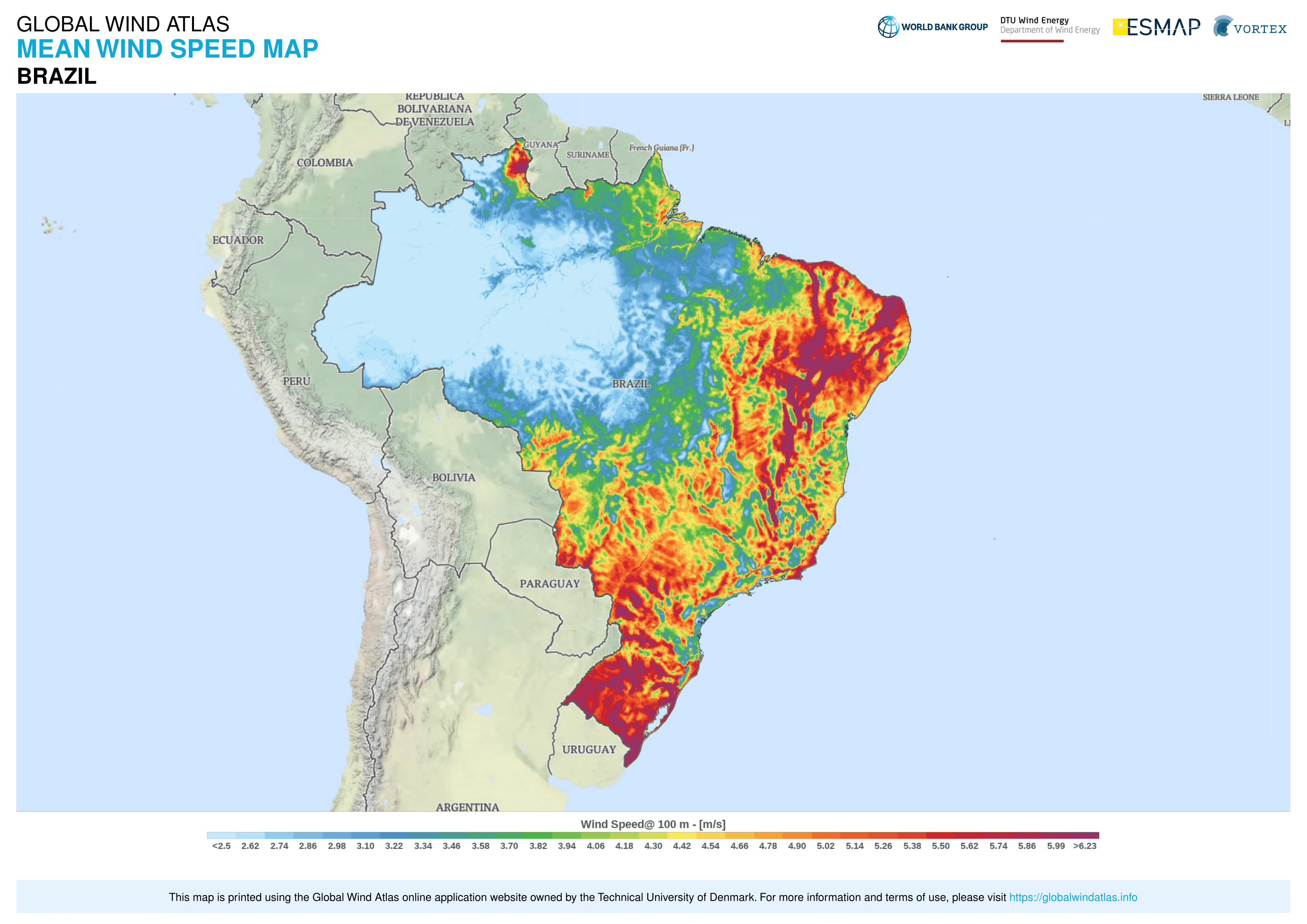 Mean wind speed in Brazil from the Global Wind Atlas